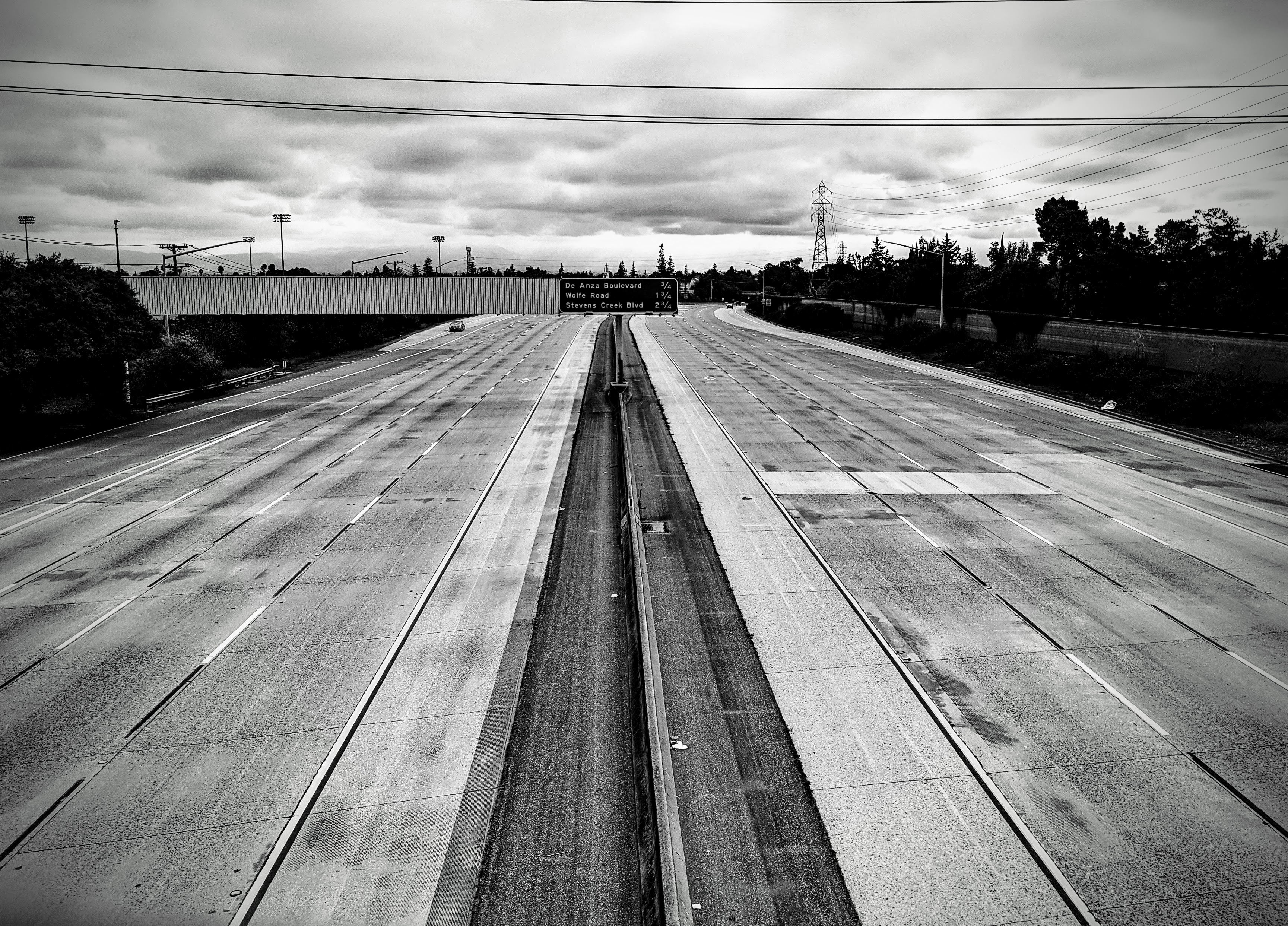 Cupertino, California